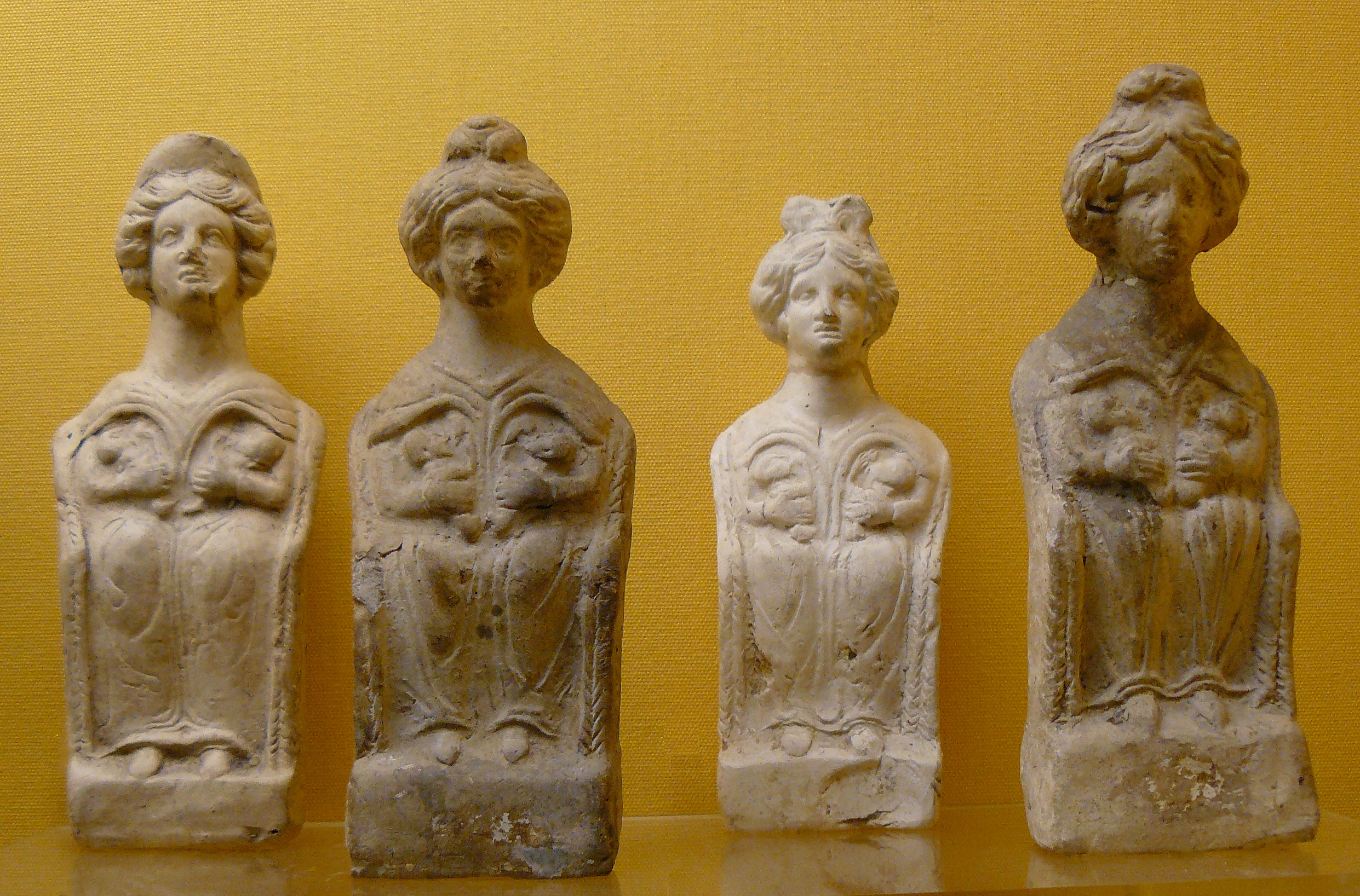 Mother goddesses with two children, different occurencies.